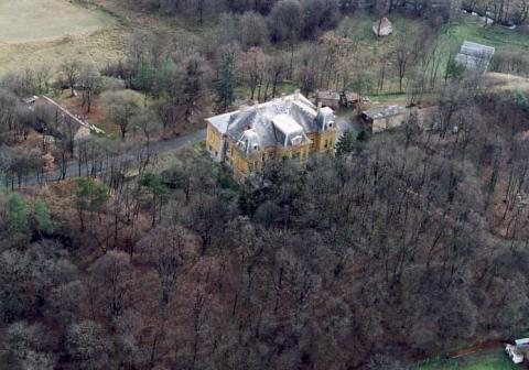 Dédestapolcsány, Hungary, aerial photography (Serényi Mansion, built in 1903)